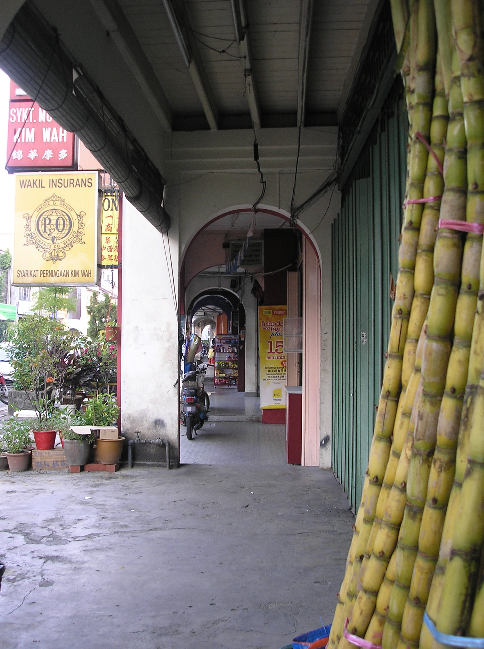 A five foot way along the main street (Jalan Besar) of Ampang, Selangor, Malaysia.